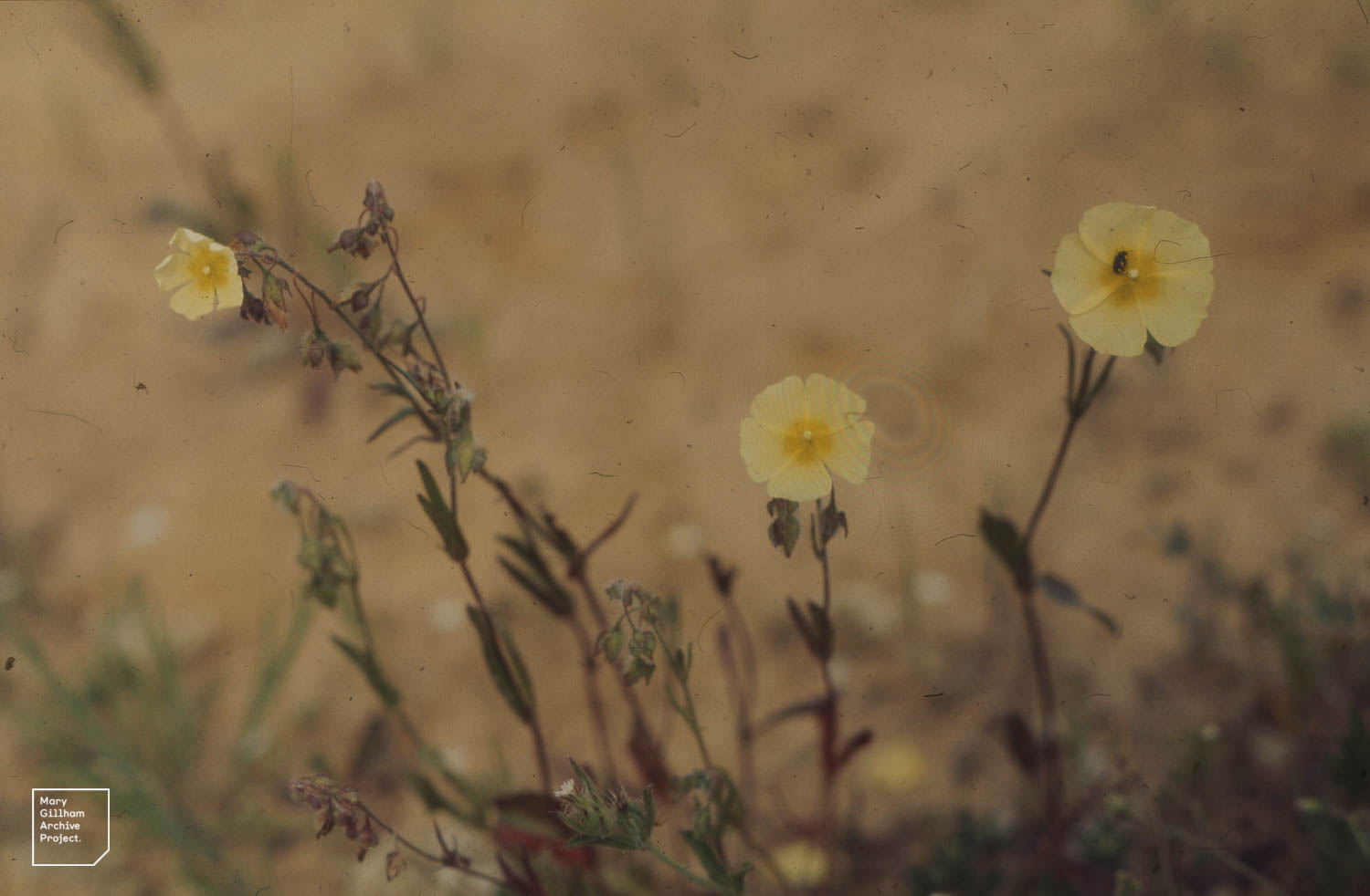 Mamora forest. The largest cork oak forest in Morocco.Atlant coast North East of Rabat